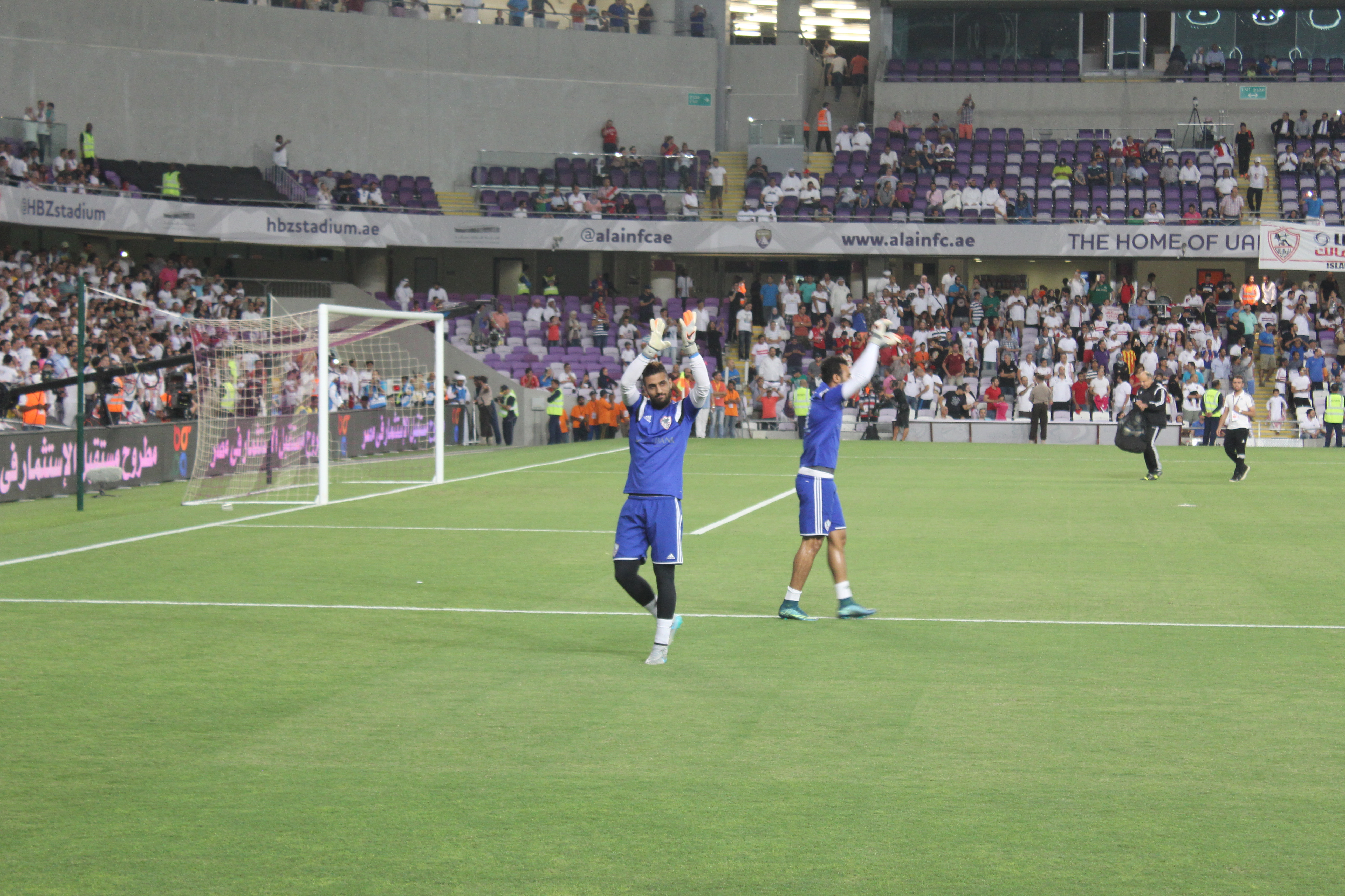 zamalek sc goal keeper